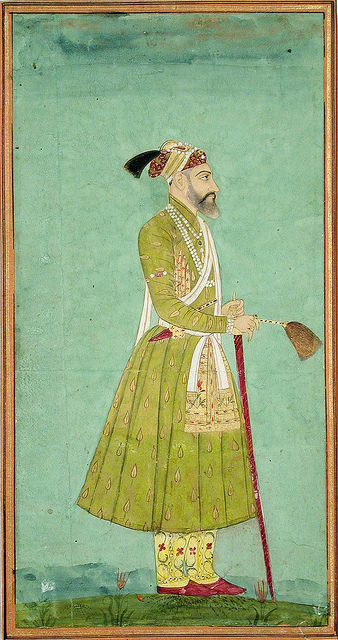 Aurangzeb was the 6th Mugal emeperor.